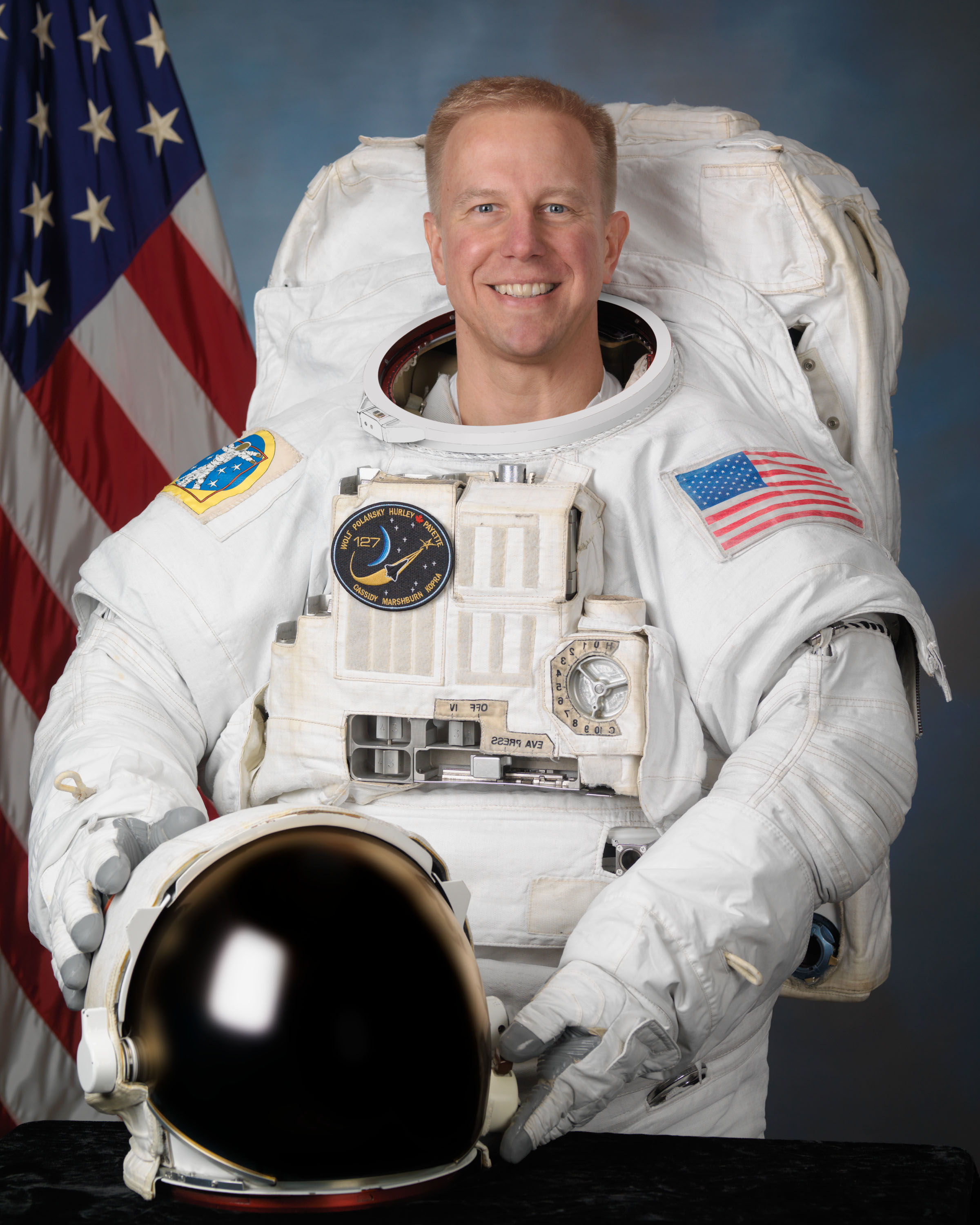 Astronaut Timothy L. Kopra, mission specialist/flight engineer